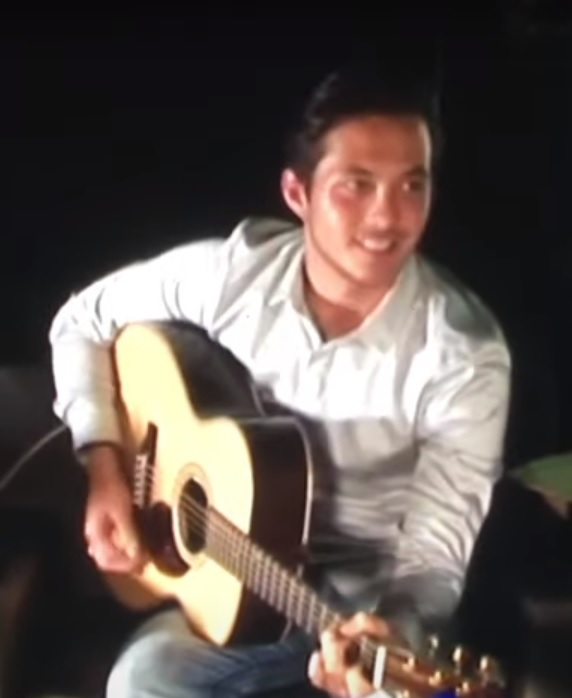 Laine Hardy at the Louisiana Music Hall of Fame Induction Ceremony